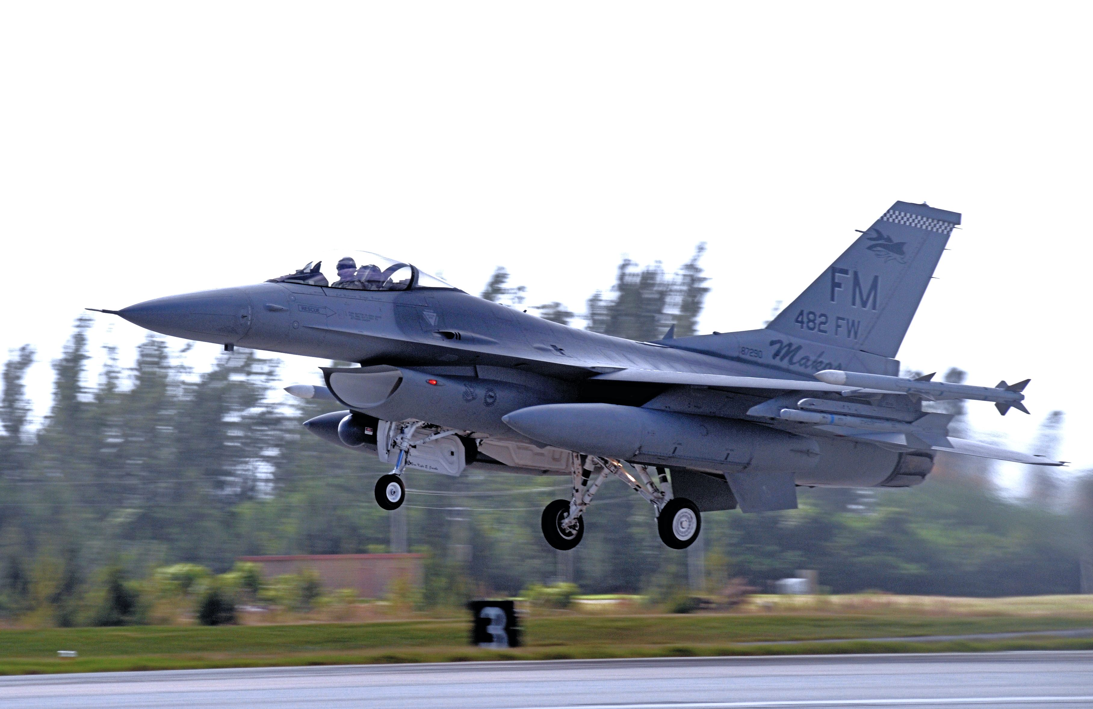 An F-16 assigned to the 482nd Fighter Wing takes off during a routine training mission. Homestead ARB will conduct an exercise Oct. 25-26. (U.S. Air Force photo/Tim Norton)